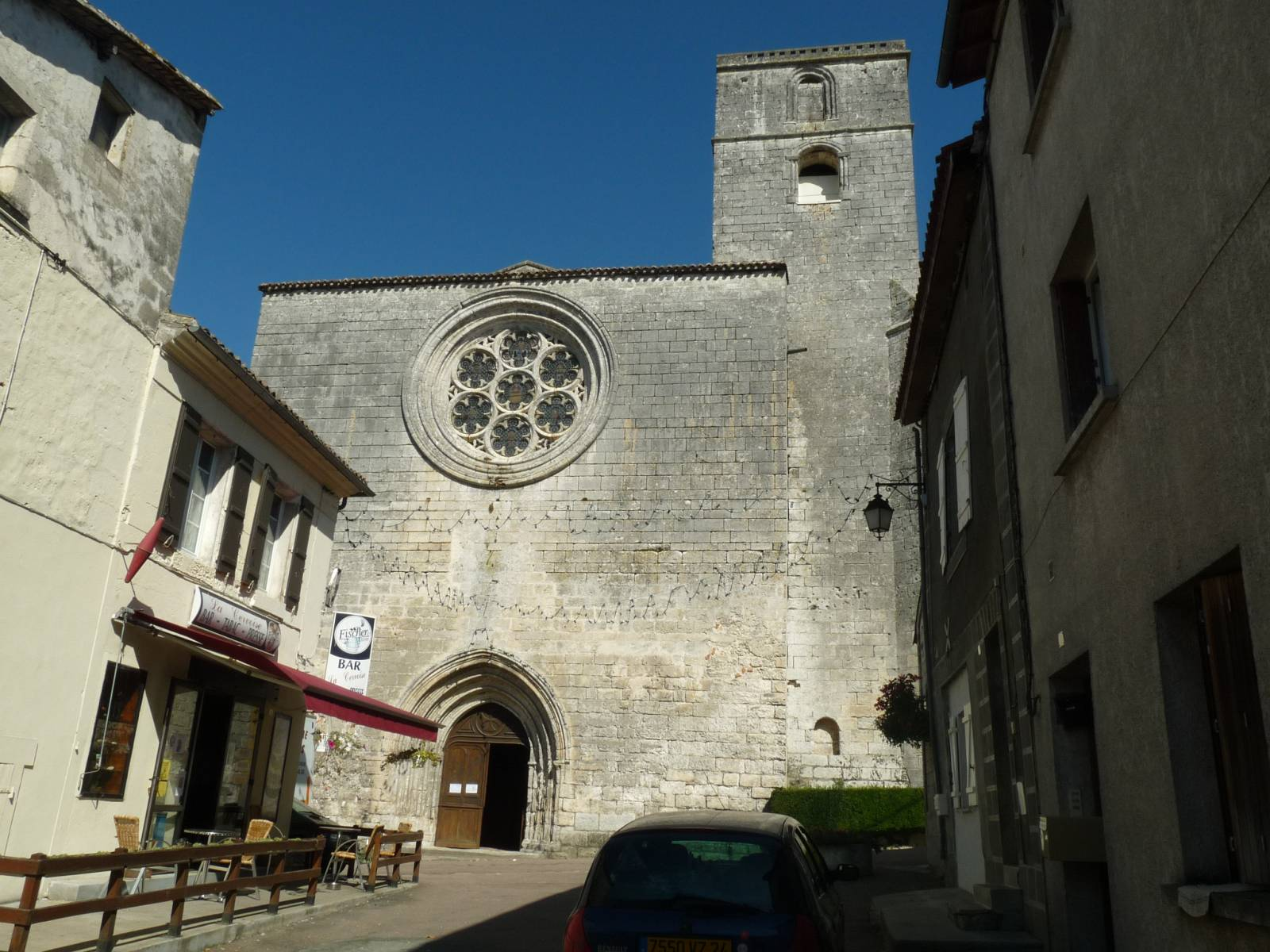 church of La Rochebeaucourt, Dordogne, SW France Object location45° 29′ 03.7″ N, 0° 22′ 47.1″ E